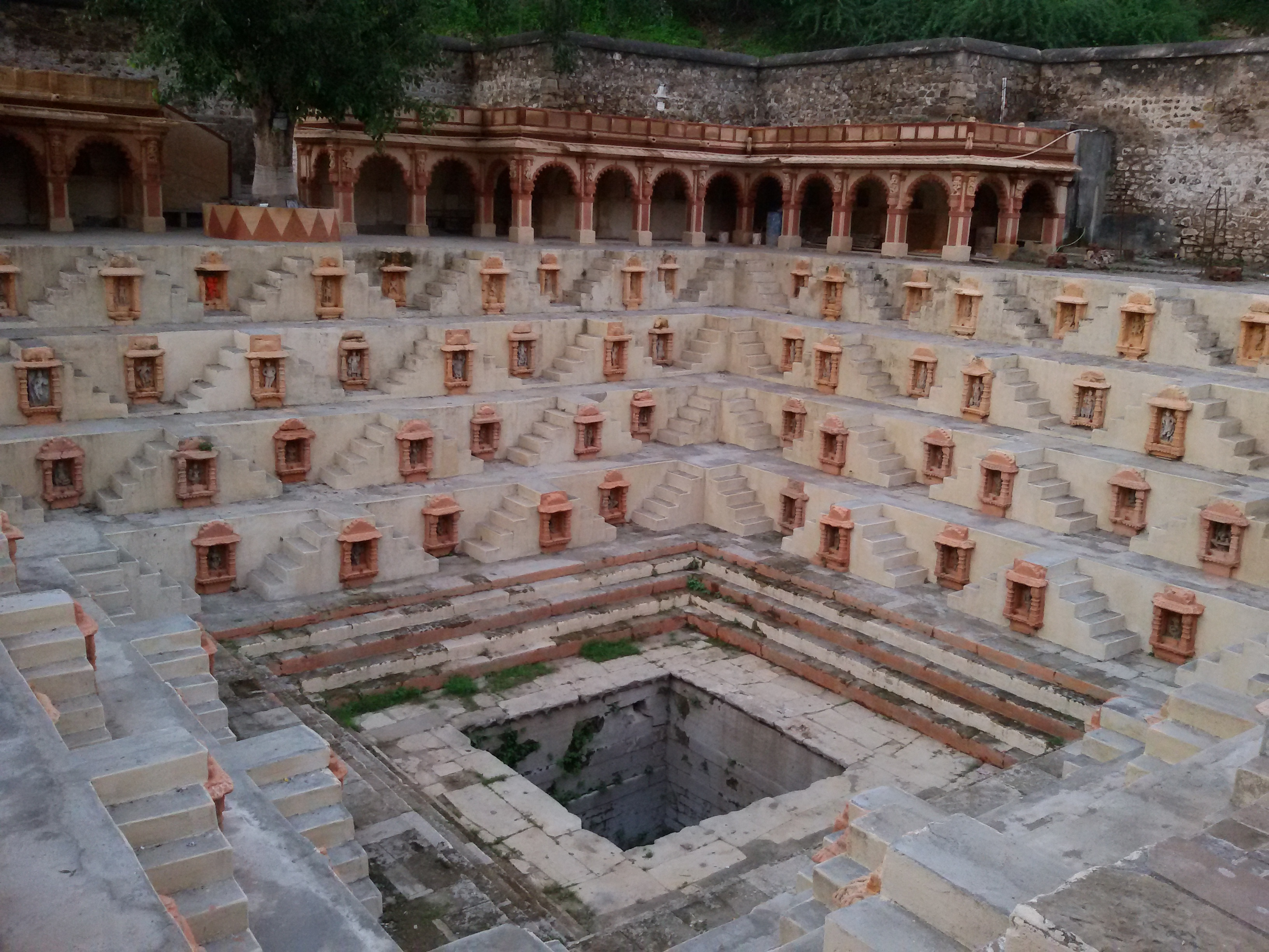 A Explorable Location at Sihor! Really Beautiful! and Built By Sidhhraj Jaysinh!